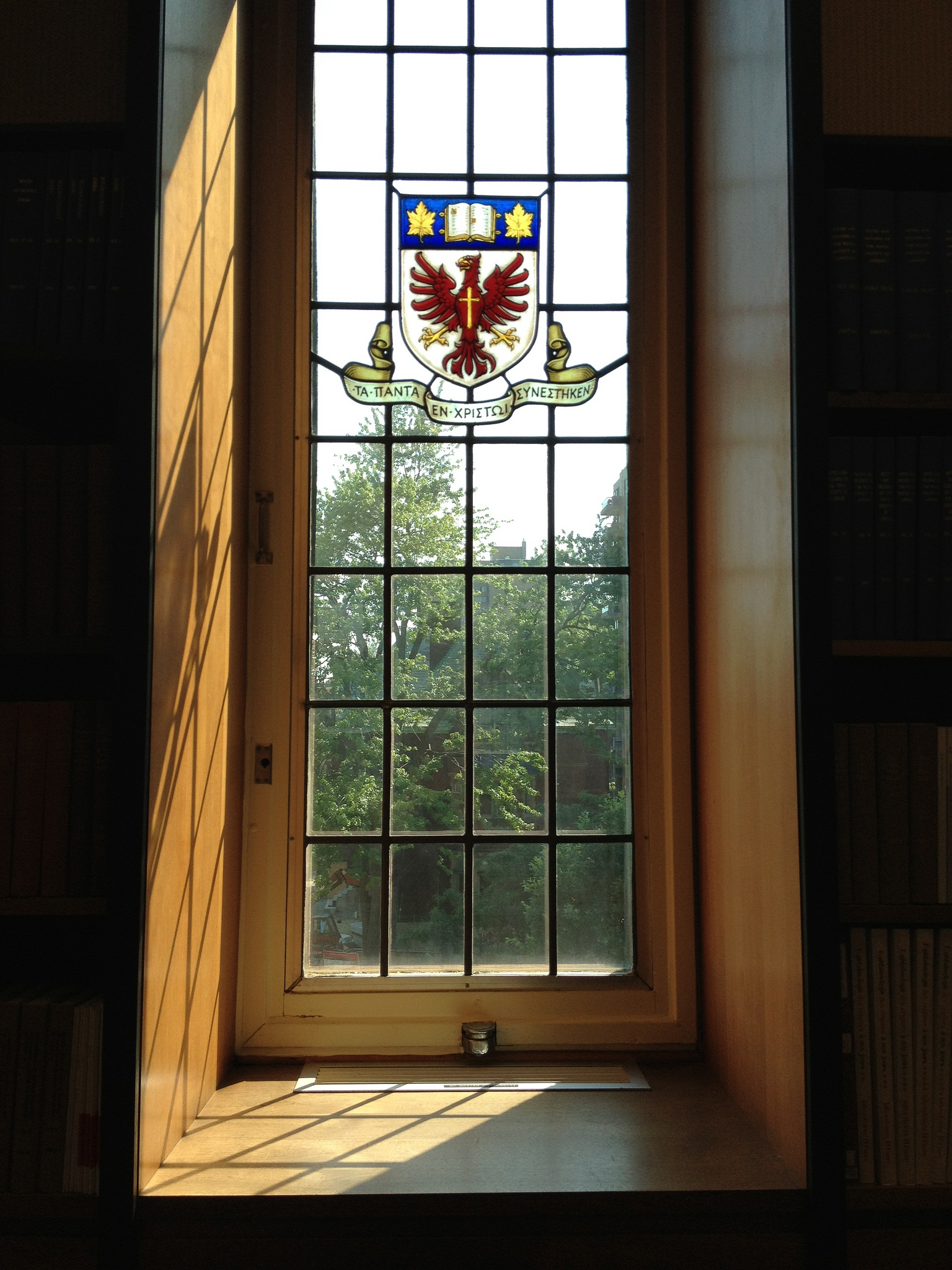 Stained glass window in Osler Library of the History of Medicine